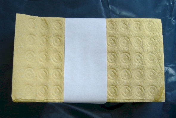 Uchikabi(Joss paper)